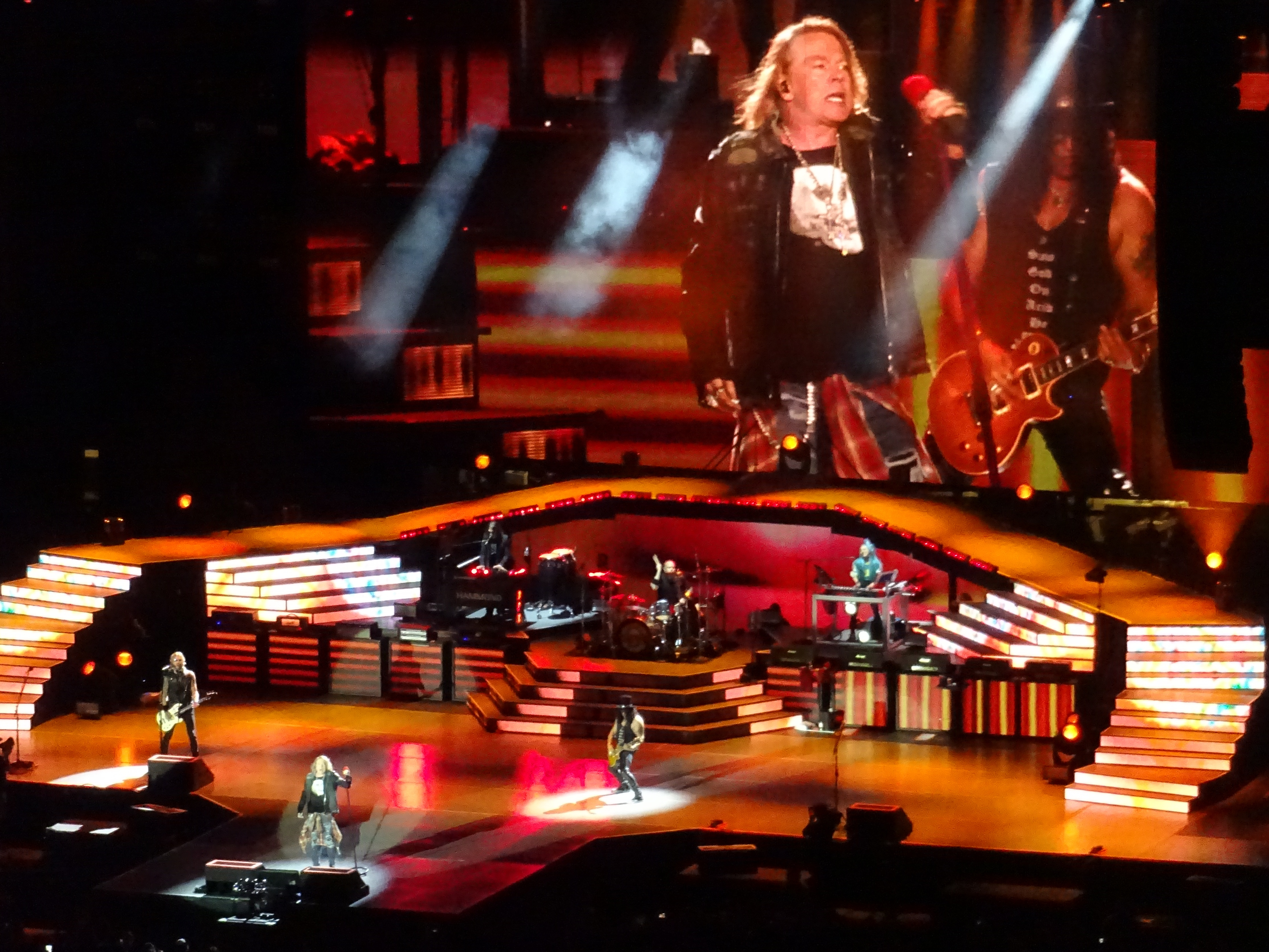 GNR Not in This Lifetime, Seattle 12-Aug-2016